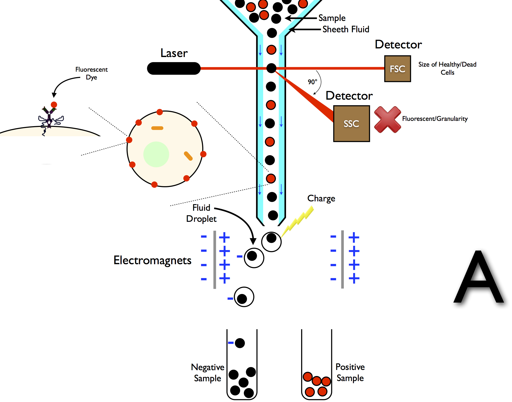 Fluorescence Assisted Cell Sorting (FACS) showing negative cell selection.